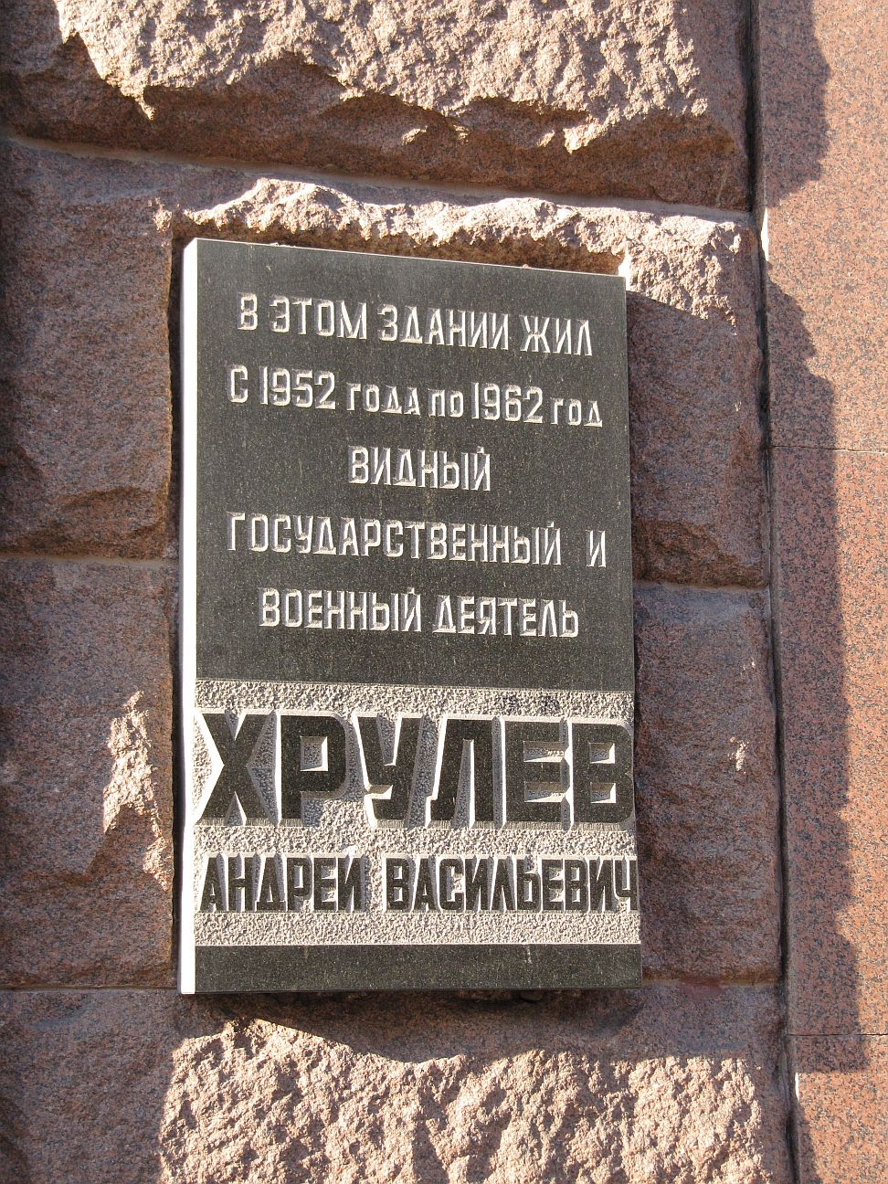 Here lived a prominent Soviet military commander Andrey Khrulyov. Moscow, Tverskaya str.,9